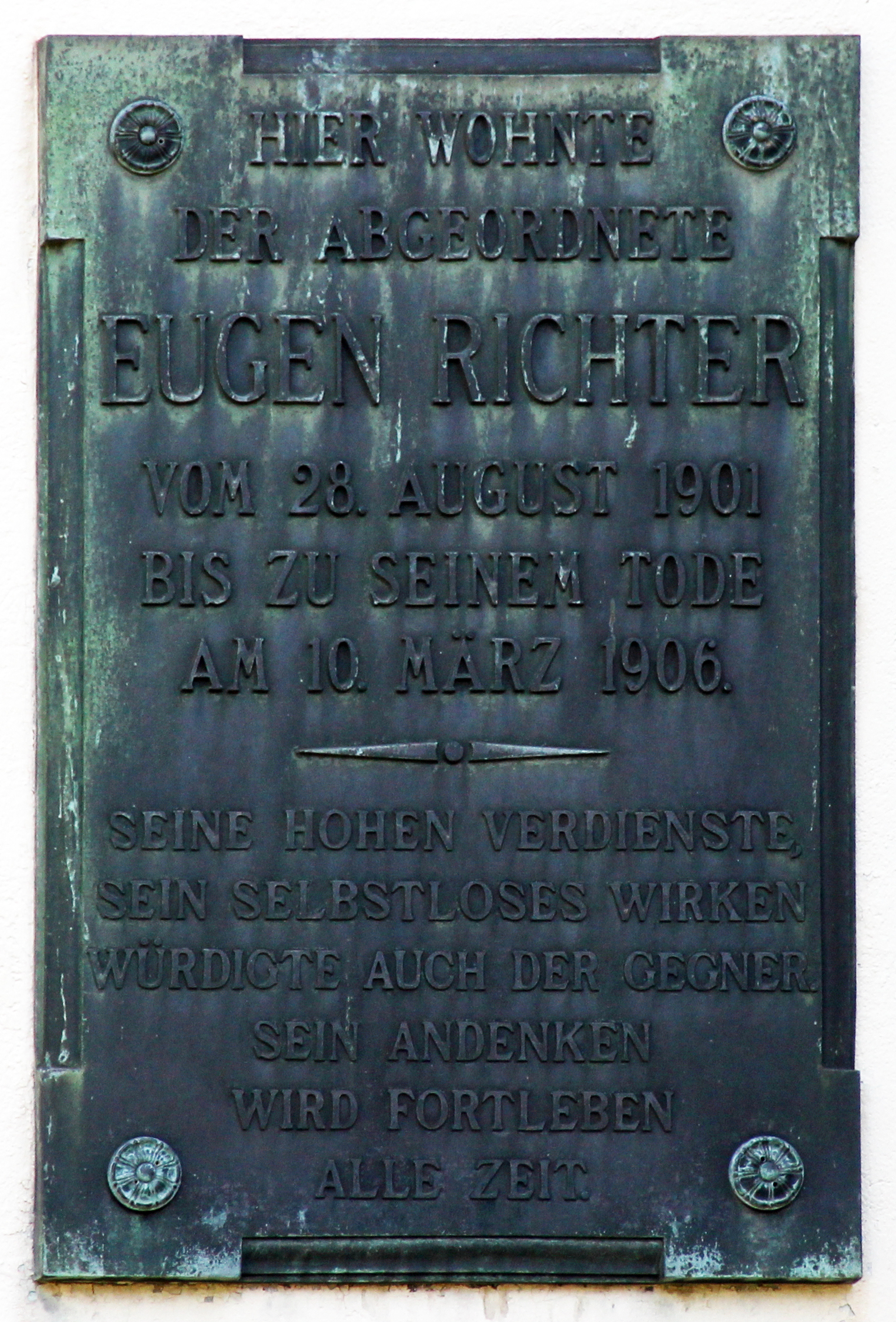 Memorial plaque, Eugen Richter, Kadettenweg 35, Berlin-Lichterfelde, Germany